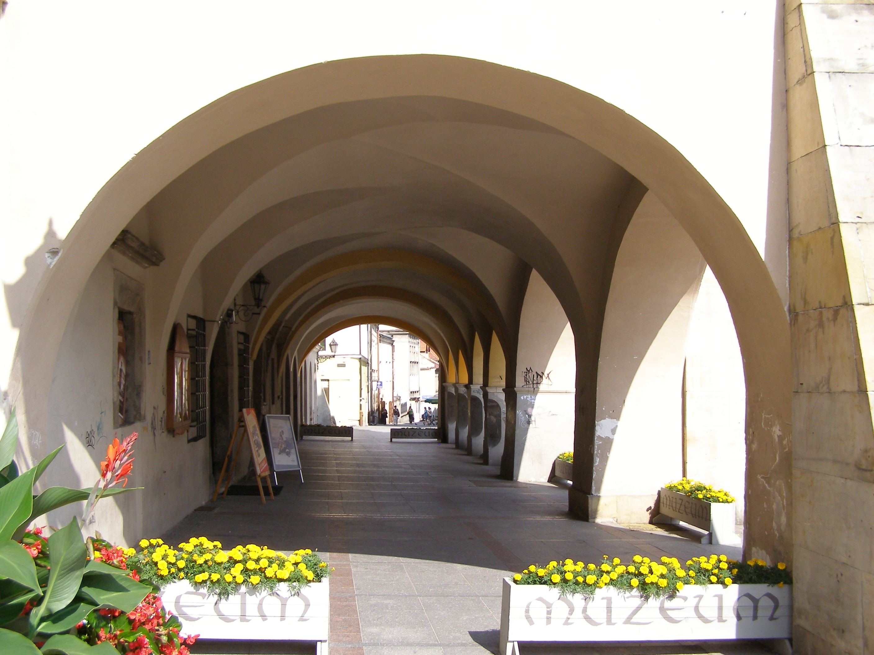 Tarnów - arcades of the District Museum building in the Market Square